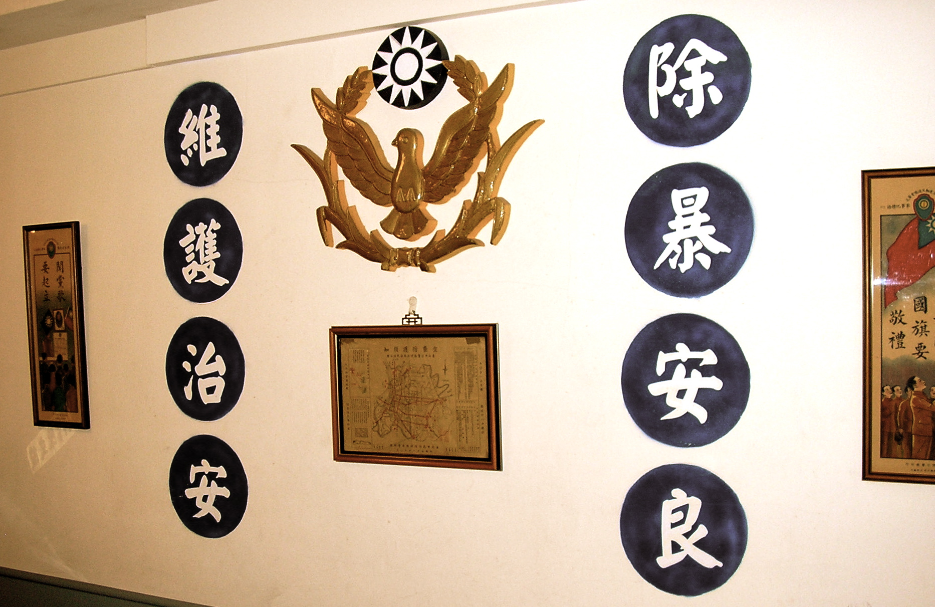 NPA insignia and slogans on the wall of the interior of a recreated 1970s era Taipei police station in the Taiwan Storyland (台灣故事館) retro theme mall. The large characters surrounding the NPA logo translate to (right side) "Eliminate the violent, protect the good" and (left side) "Uphold law and order".